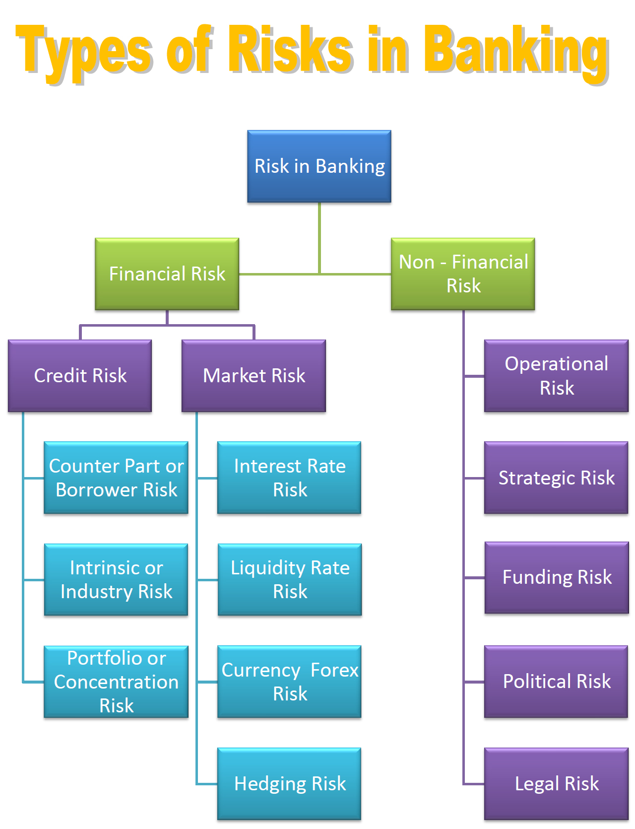 A flowchart pointing out the different types of risks in Banking